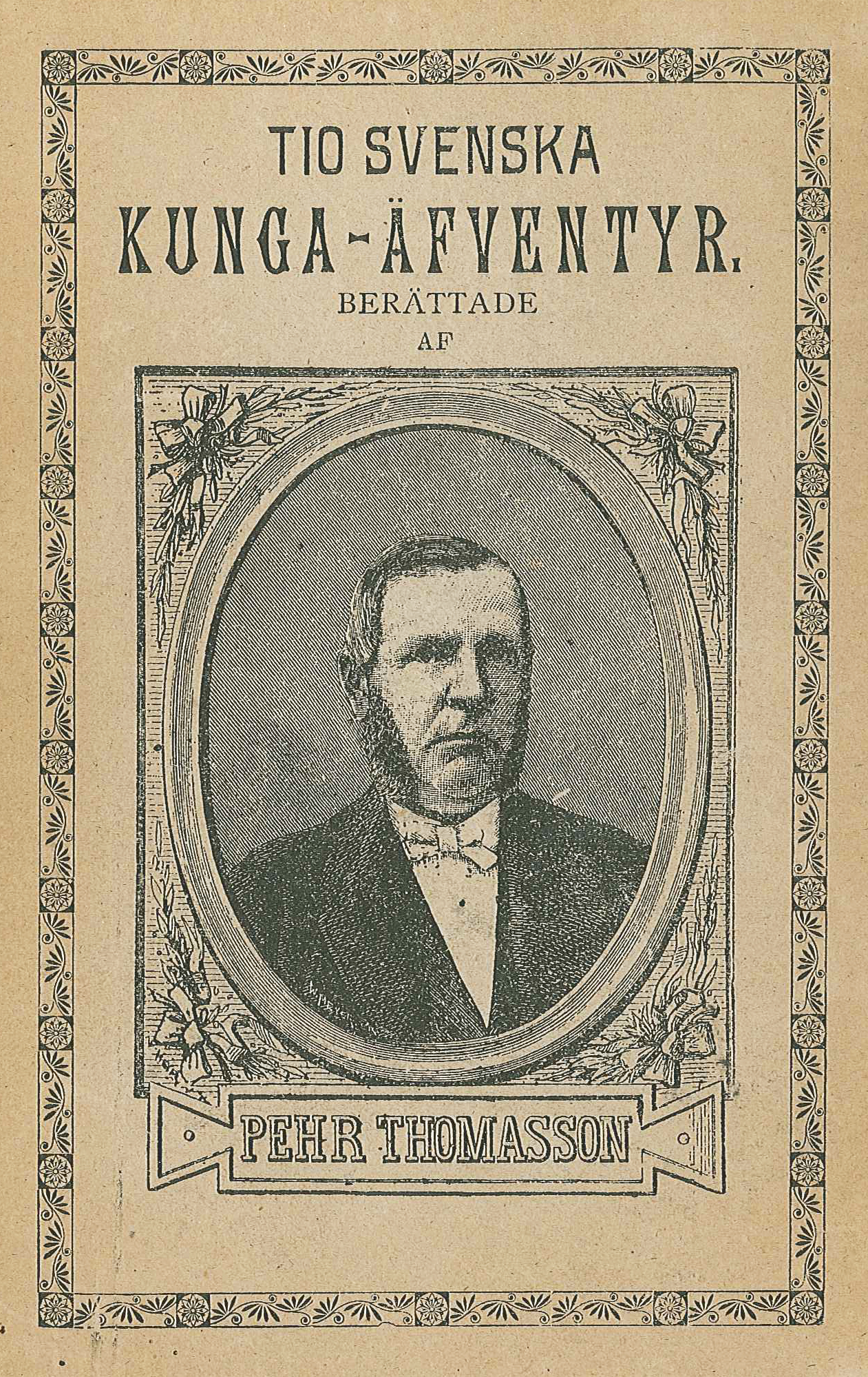 Pehr Thomasson (1818-1883), Swedish author. Cover of a pothumous collection of his historical short stories.